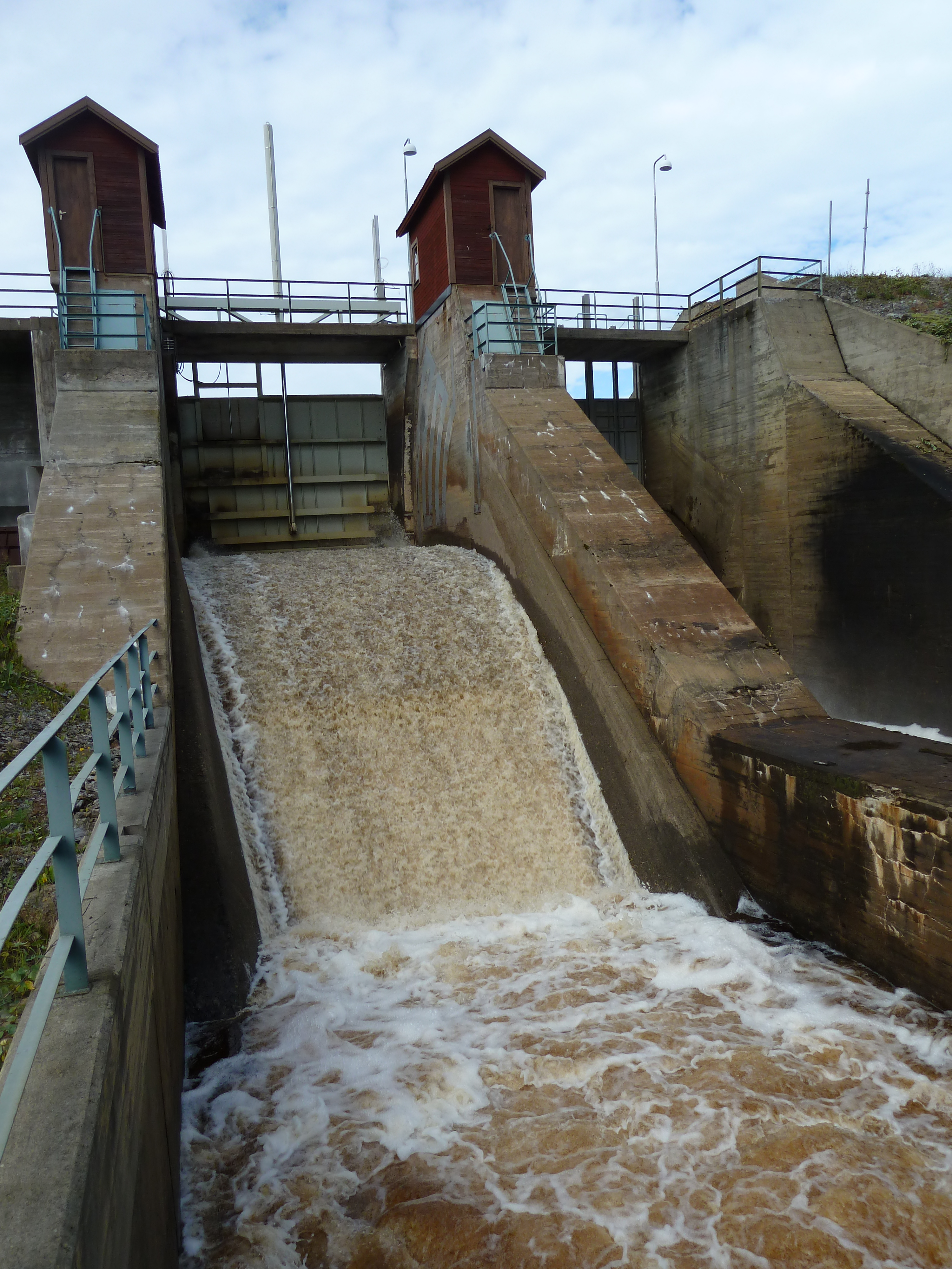 Kubbe kraftverk, Örnsköldsvik, Sweden